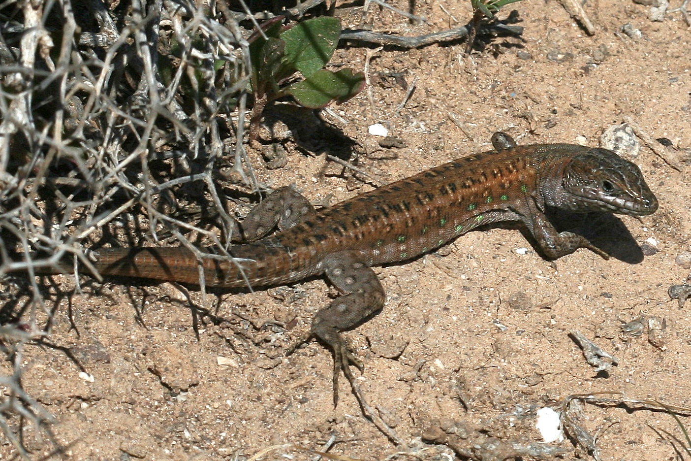 Lajares, Fuerteventura